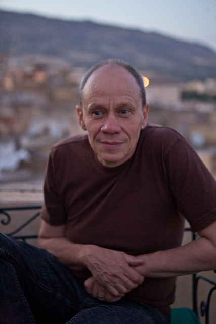 A portrait of the visual artist David Packer